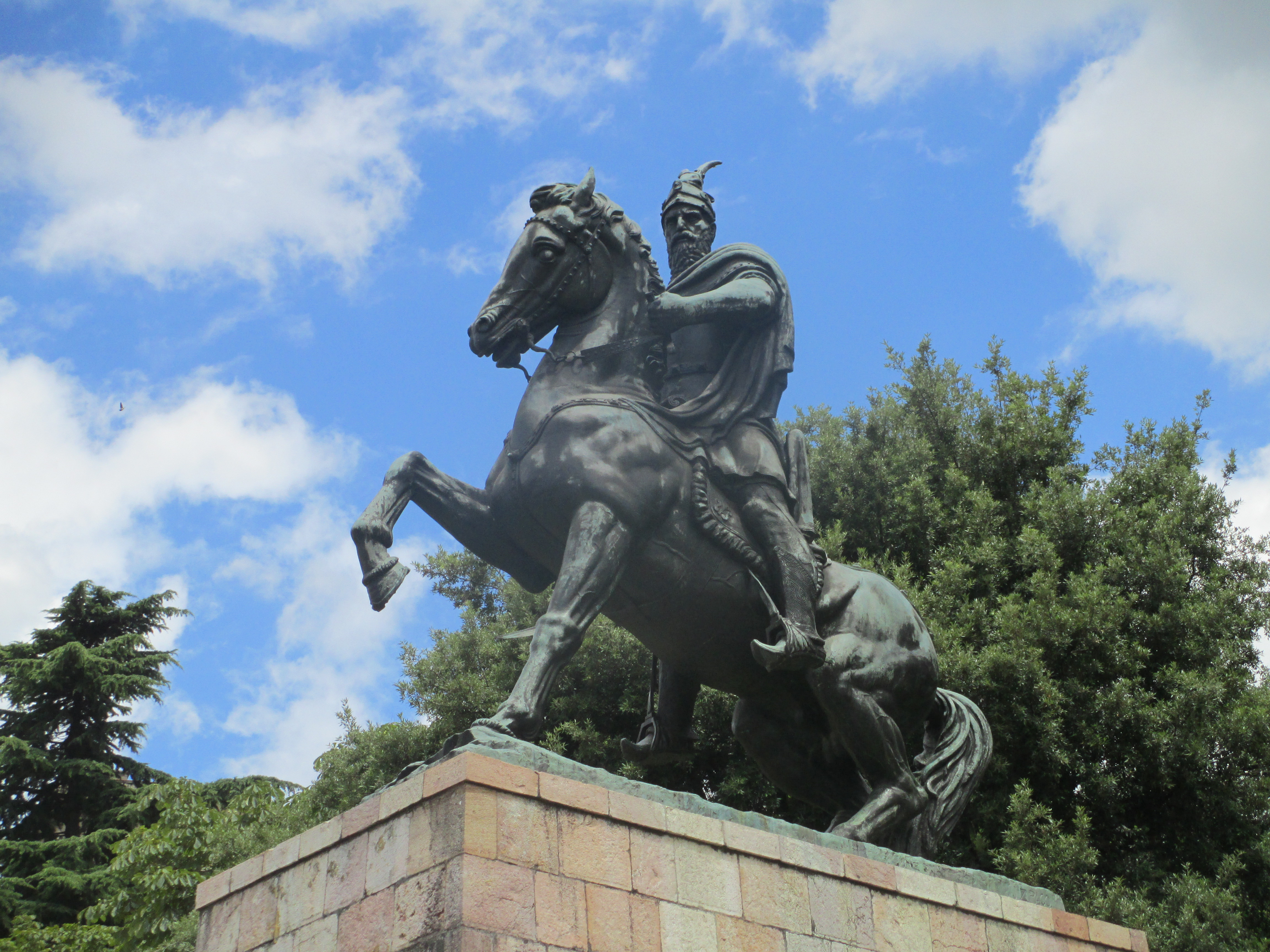 Skanderbeg monument in Kruje